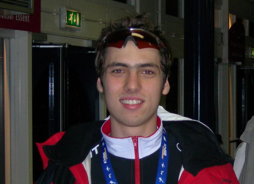 Artur Was (POL) at the World Sprint Championships in Thialf (Heerenveen, The Netherlands)